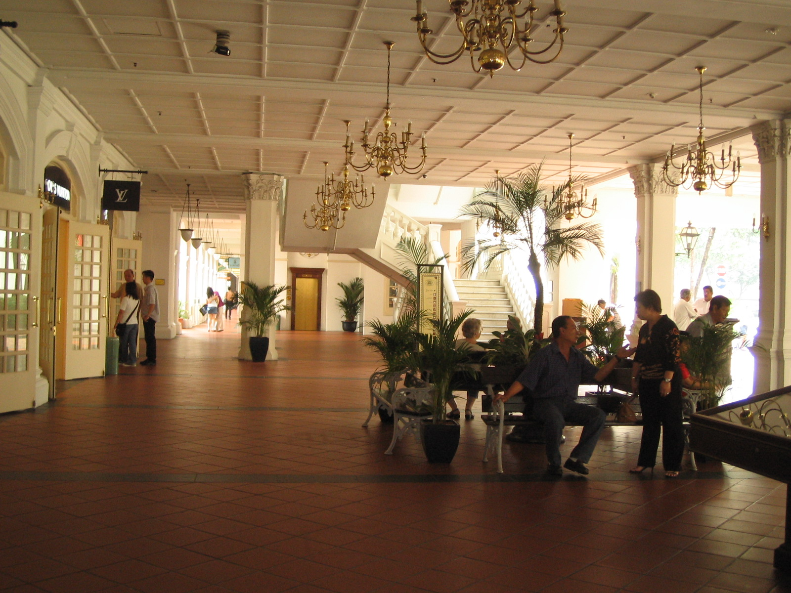 A part of Raffles Hotel, Singapore, facing North Bridge Road.